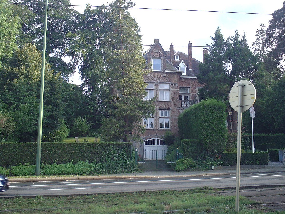 A house on Avenue Delleur in Brussels that was used as the inspiration for Professor Tarragon's house in The Seven Crystal Balls, which is the thirteenth volume in Hergé's comic series The Adventures of Tintin.